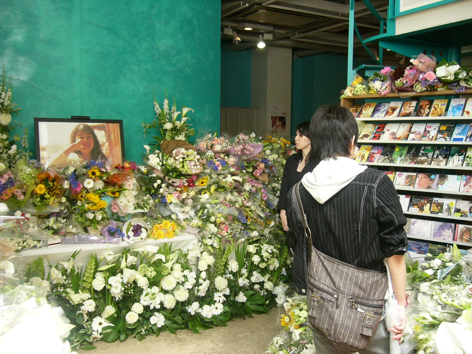 I took a lot of pictures about Zard vocalist Izumi Sakai in Zard's entertainment agency Relations in Roppongi, Tokyo, Japan on May 31, 2007 after she died on May 27, 2007.